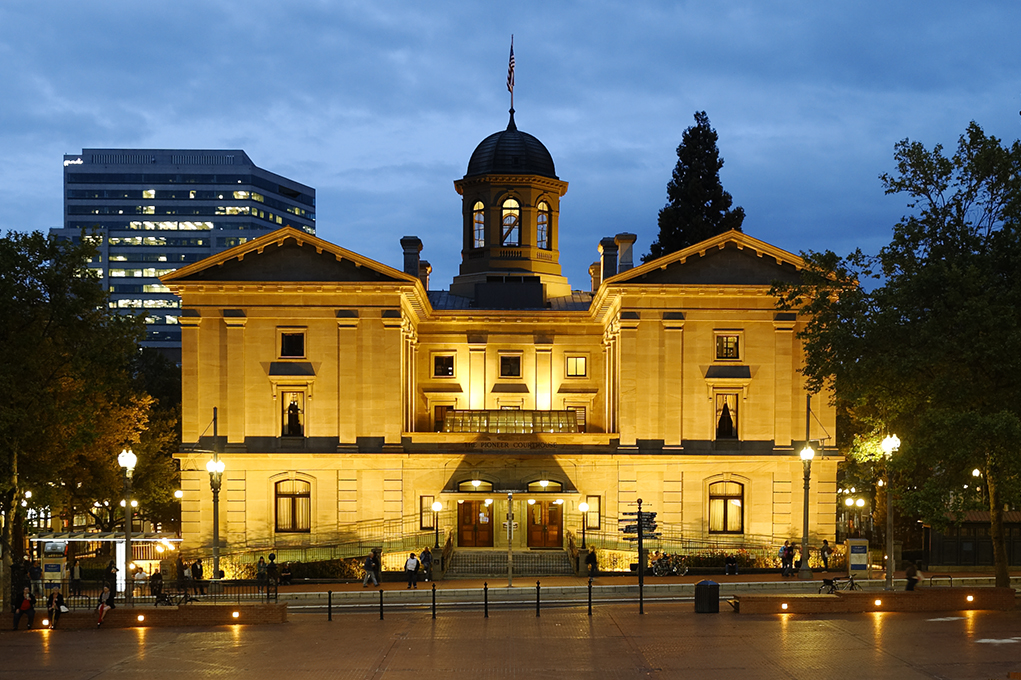 Pioneer Courthouse Portland Oregon at sunset on June 25, 2013